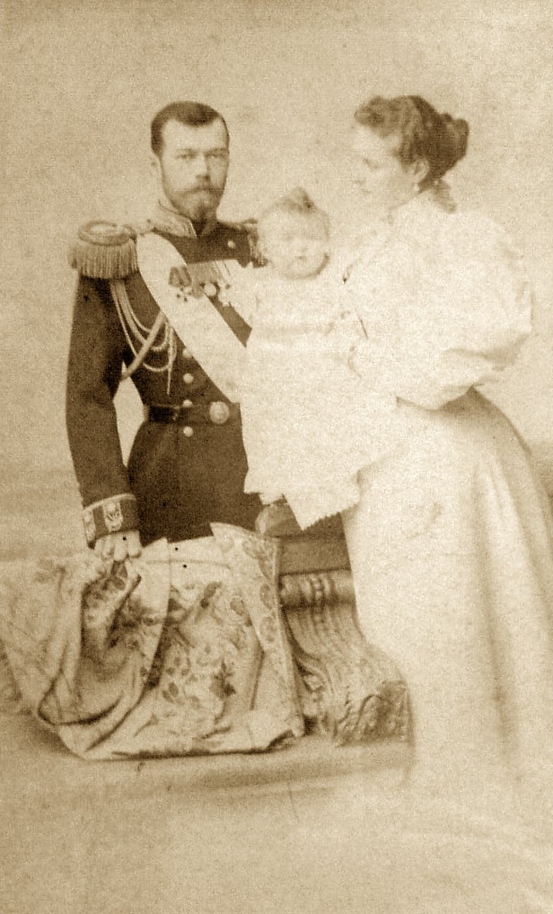 Russian Imperial Family Photo